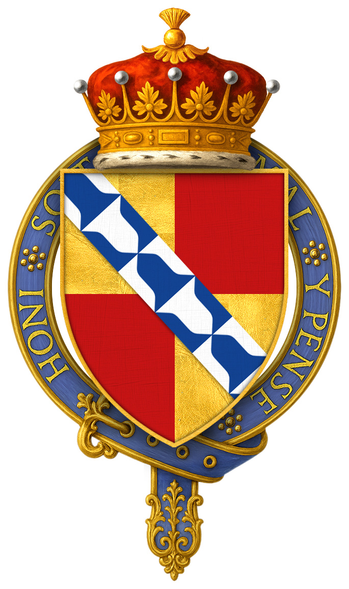 Coat of arms of Sir Thomas Sackville, 1st Earl of Dorset, KG See the portrait of Thomas Sackville, 1st Earl of Dorset, Being Presented with Petitions by His Secretary, by John de Critz the elder